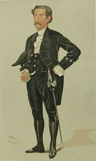 Caricature of Mr Harry Seymour Foster. Caption read "A Sheriff".